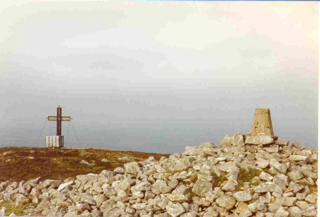 Trig point and cross at the summit of Brandon Hill. Highest point in County Kilkenny